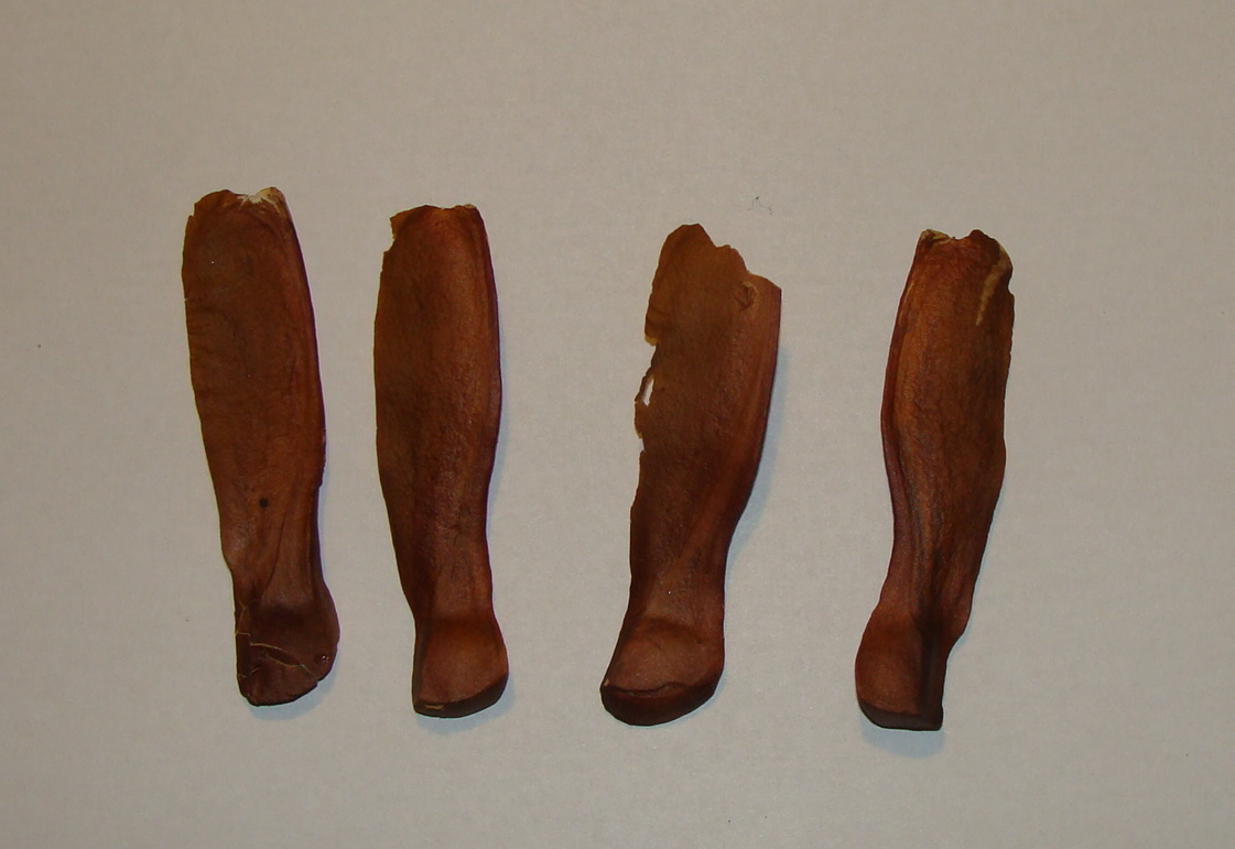 Mahogany seeds